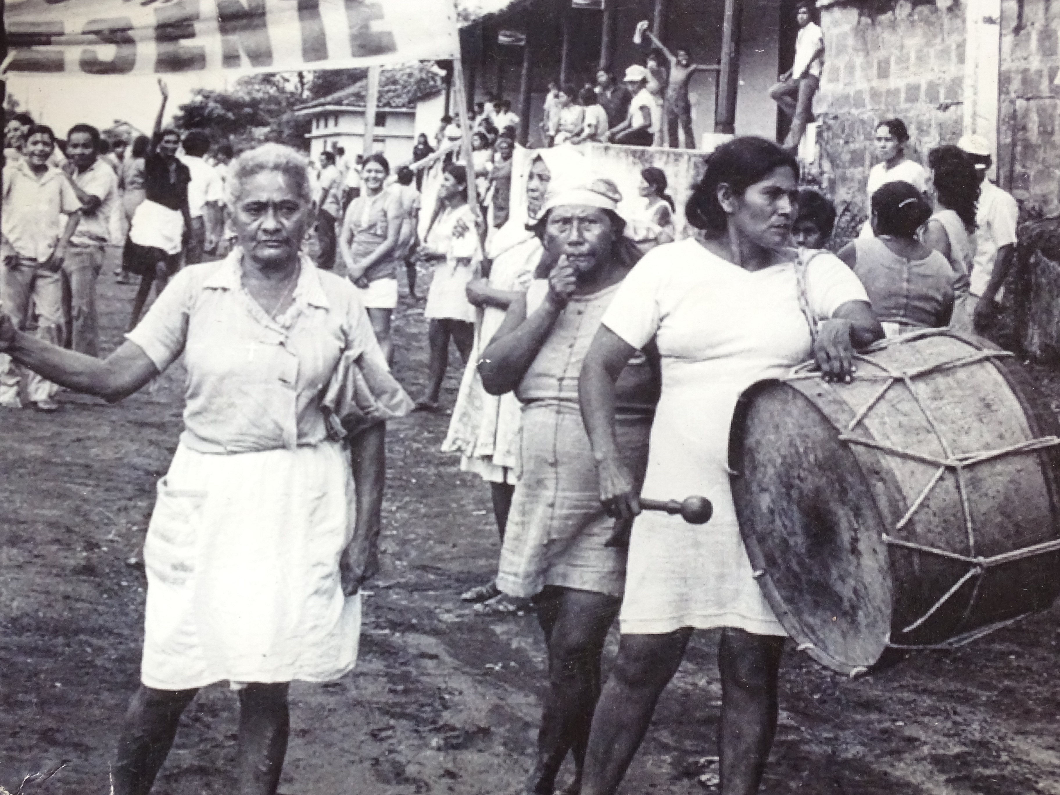 Contemporary (1970s) Image of Women in Revolution - Museum of the Revolution - Leon - Nicaragua